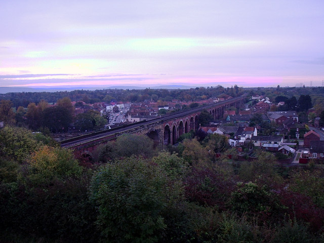 View to Yarm viaduct